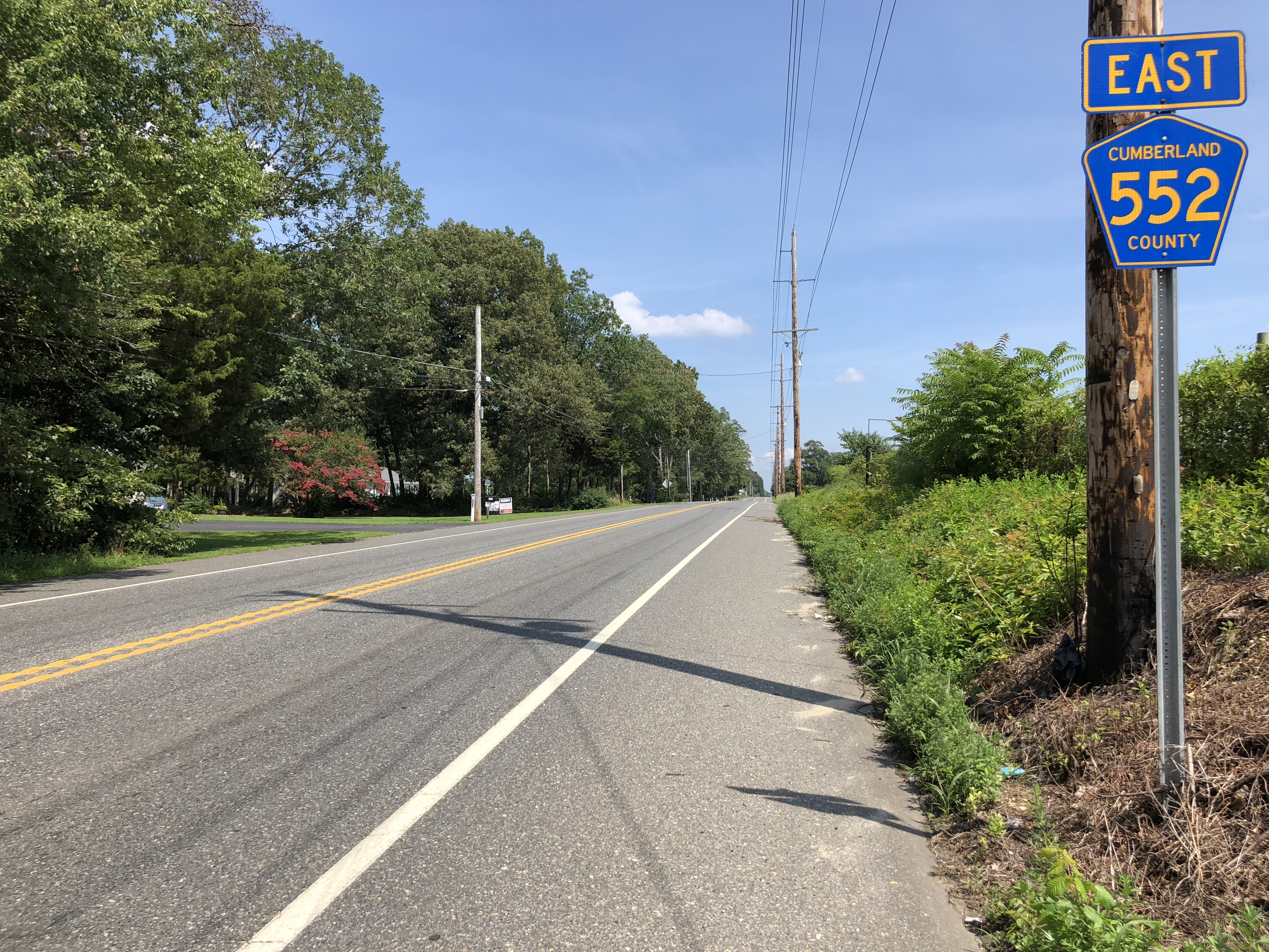 View east along Cumberland County Route 552 (Irving Avenue) just east of Cumberland County Route 553 (South Woodruff Road) in Upper Deerfield Township, Cumberland County, New Jersey